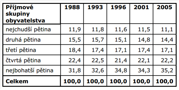 fdsf